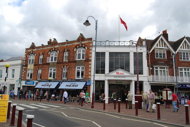 Entrance to The Royal Victoria Place, Tunbridge Wells A large shopping centre opened in the 1990s by Princess Diana